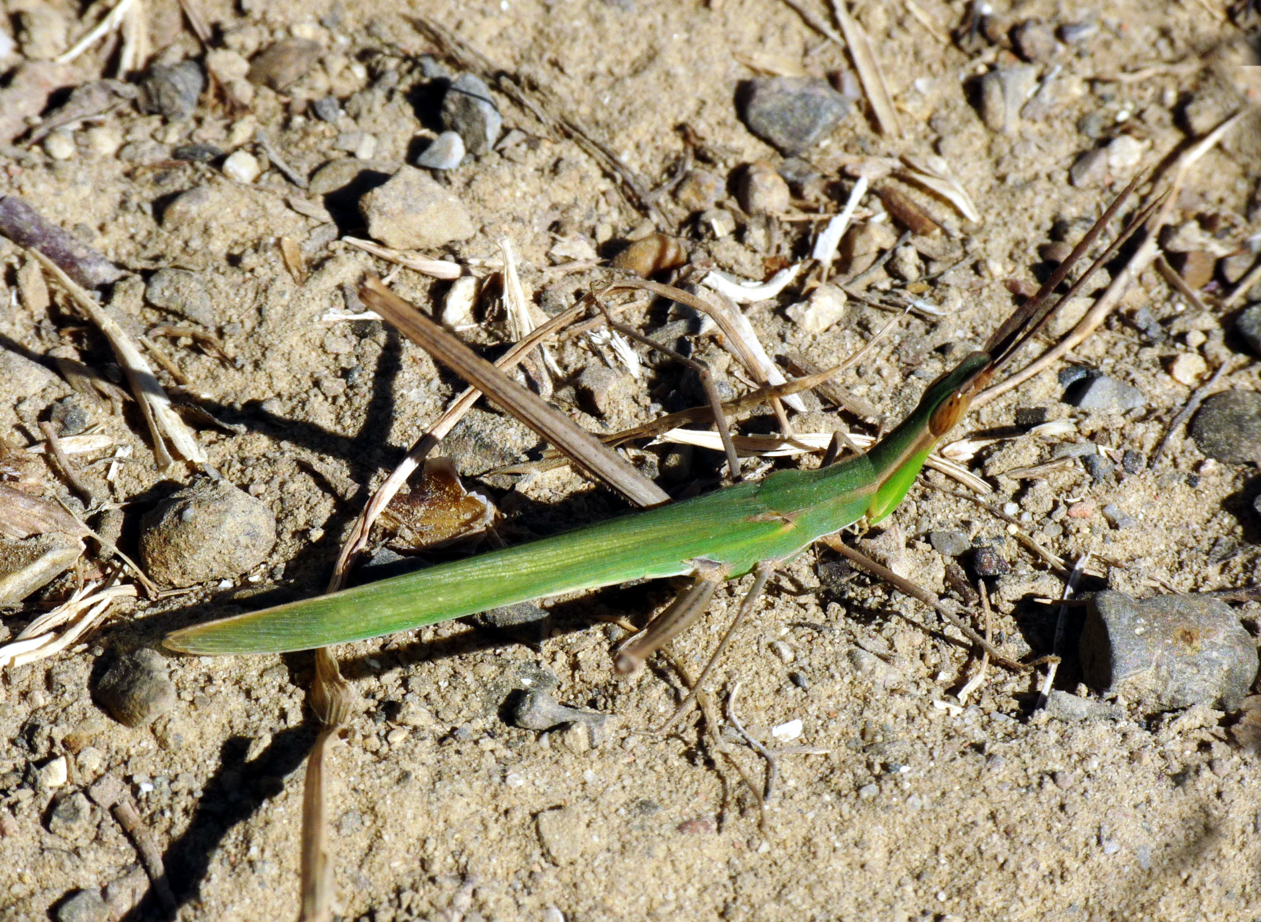 Acrida ungarica, near Livorno, Tuscany, Italy